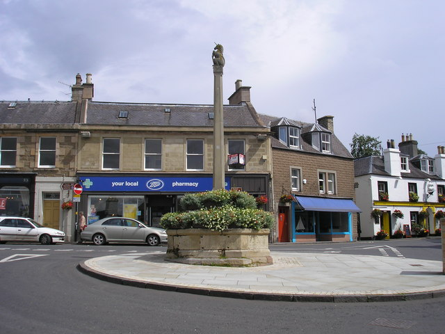 Mercat Cross, Melrose The view of the Mercat Cross (the Scottish term for market cross) in Melrose.